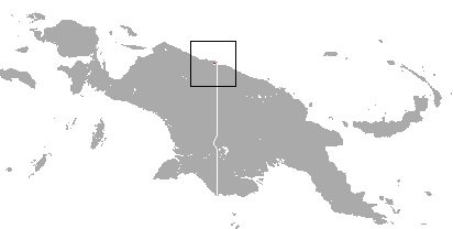 Sir David's Long-beaked Echidna (Zaglossus attenboroughi) range